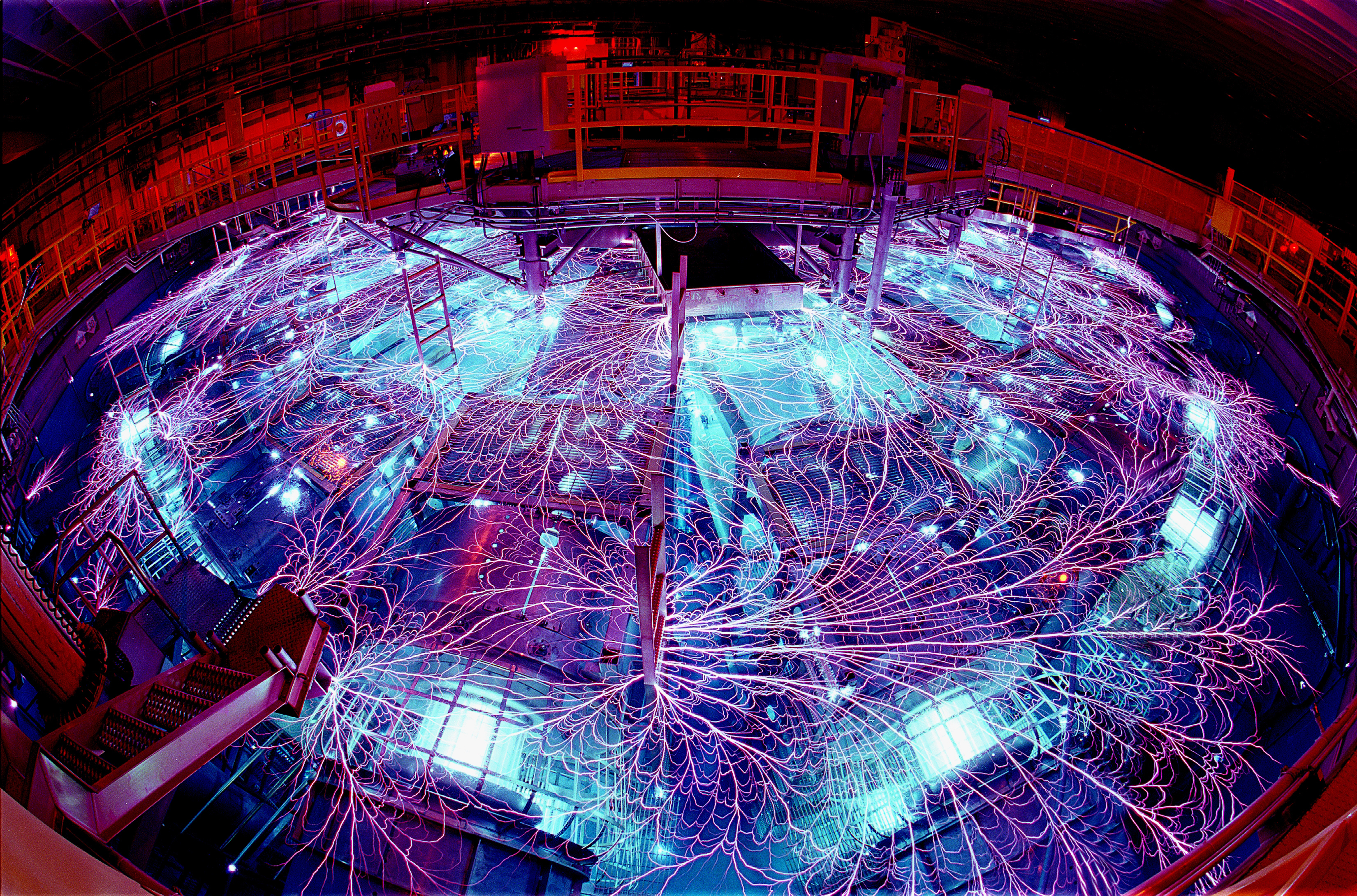 The Z machine, the largest X-ray generator in the world, is located in Albuquerque, New Mexico. As part of the Pulsed Power Program, which started at Sandia National Laboratories in the 1960s, the Z machine concentrates electrical energy and turns it into short pulses of enormous power, which can then be used to generate X-rays and gamma rays. Click on the image for a full size version. | Photo credit: Randy Montoya/Sandia National Laboratories. Photo of the Week: September 21, 2012